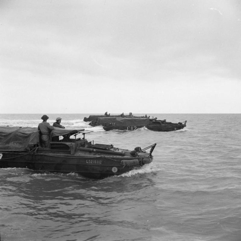 The British Army in Italy 1943 DUKWs offshore at Fossacesia, 15 December 1943.